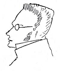 Sketch of Max Stirner.